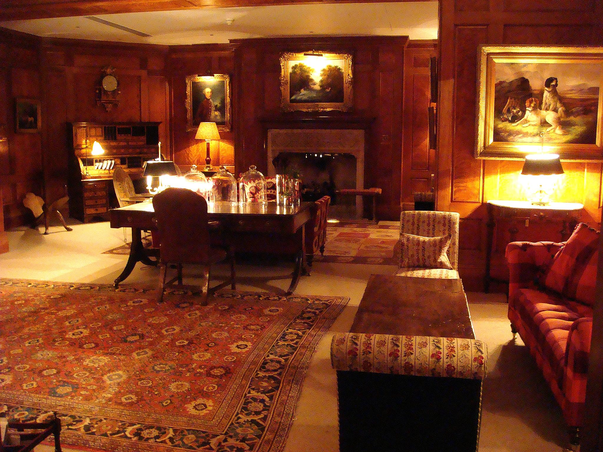 Covent Garden Hotel, London